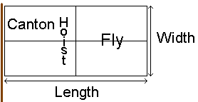 Flag terminology diagram